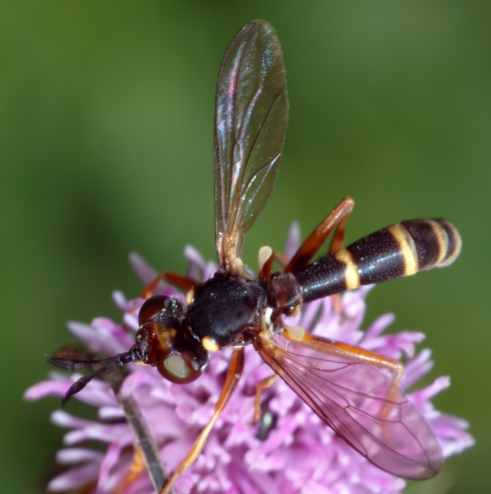 This image shows an about 0.35 inch (9 mm) large Yellow-banded Conops (Conops quadrifasciatus). Thanks to Luis Fernández García and Wofl for identifying this animal.